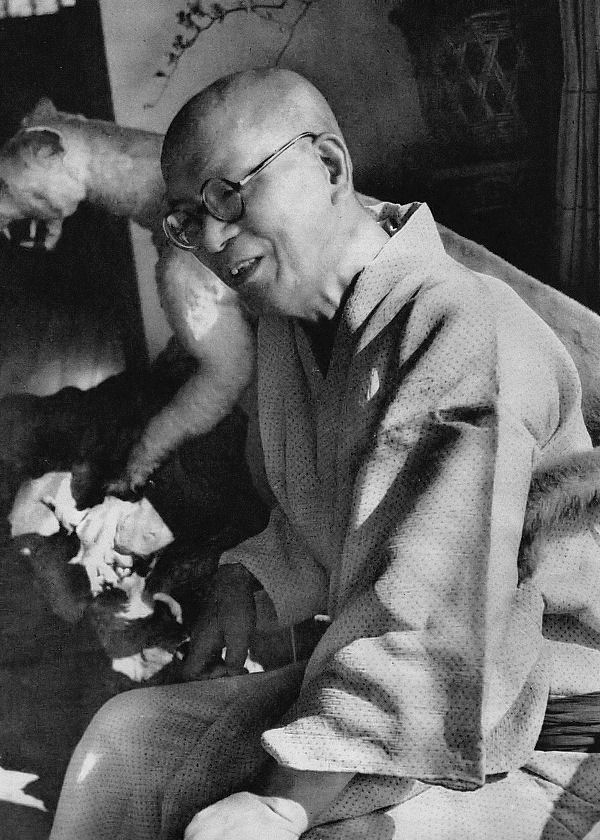 Matsutaro Shoriki